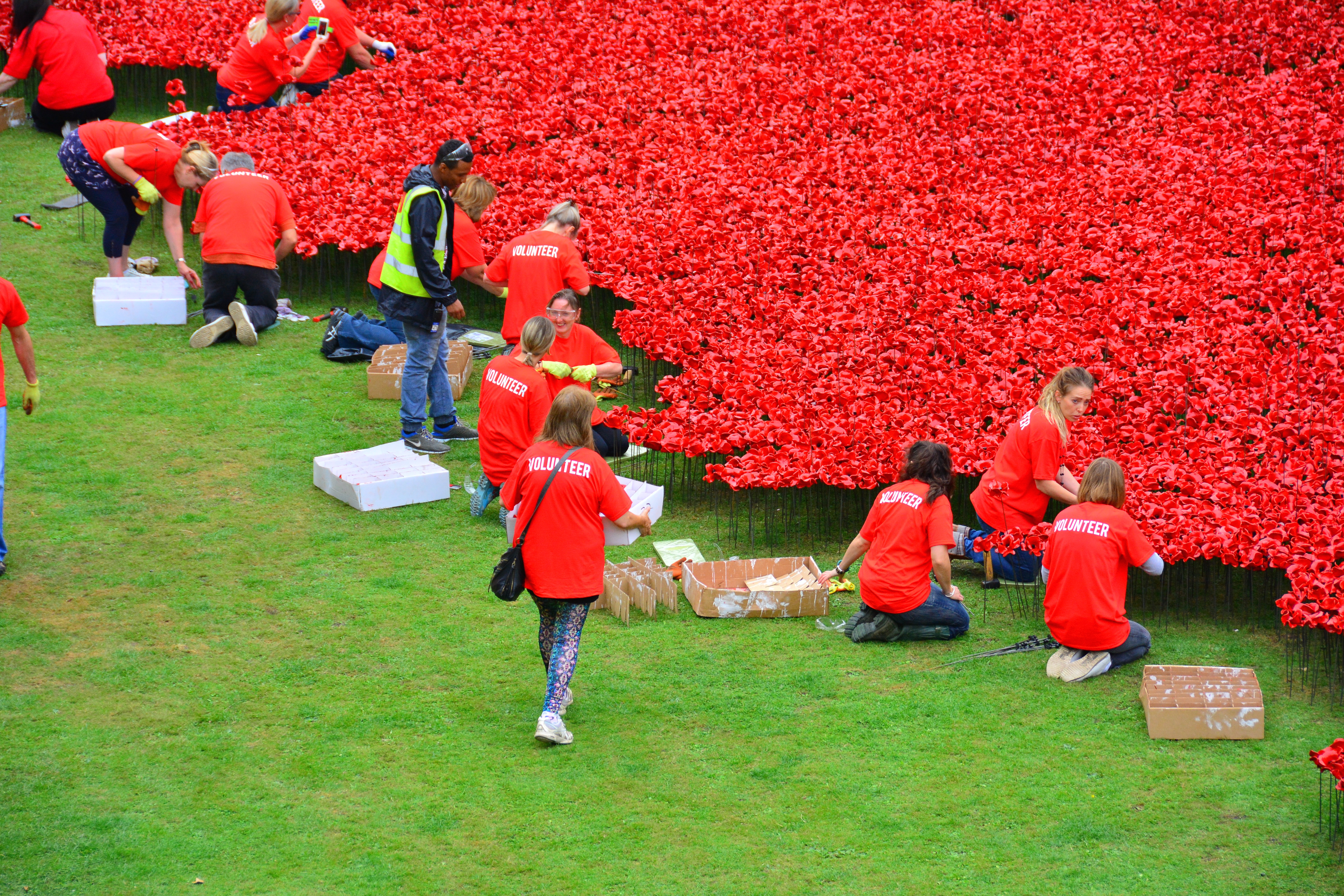 The Blood Swept Lands And Seas of Red exhibition, by artist Paul Cummins, involves 888,246 ceramic poppies planted in the dry moat at the Tower. A poppy has been made for each British and Colonial death during the conflict. The final one due to be installed on Armistice Day.